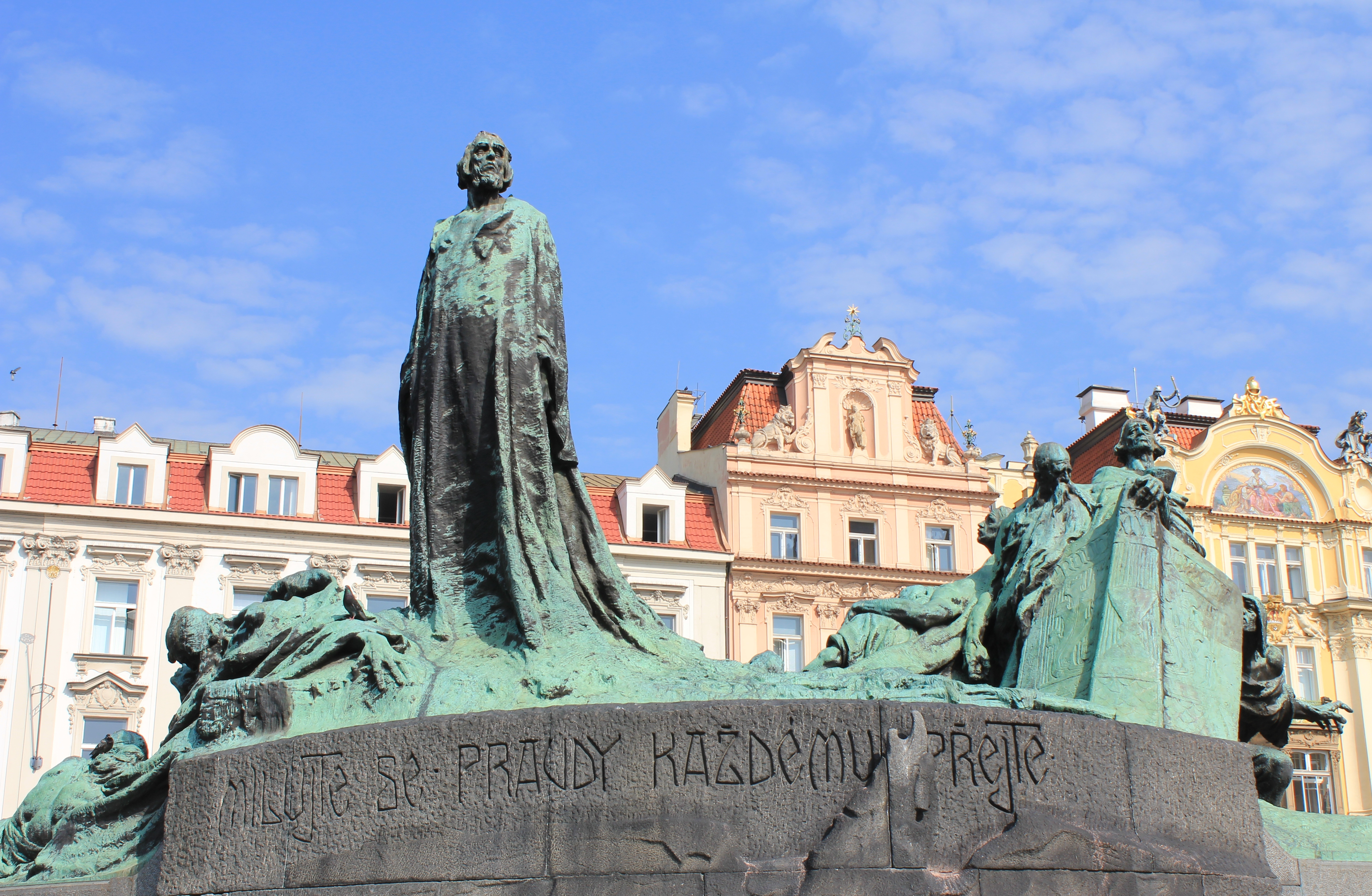 Jan Hus monument